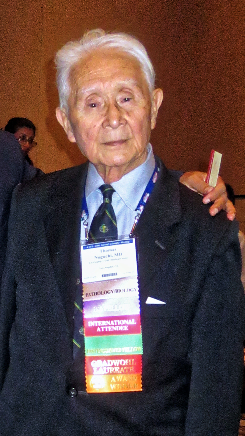 Thomas Noguchi, forensic scientist, at the 68th Annual Scientific Meeting of the American Academy of Forensic Sciences in Las Vegas 2016.Wikimedia photograph cropped to remove the extraneous and unimportant for the Wikipedia article, colour correction to remove as much of the orange cast as possible, and brightening/contrast/sharpening, with DxO PhotoLab, Viewpoint 3, and Adobe Photoshop CS2. Kept to original aspect ratio.